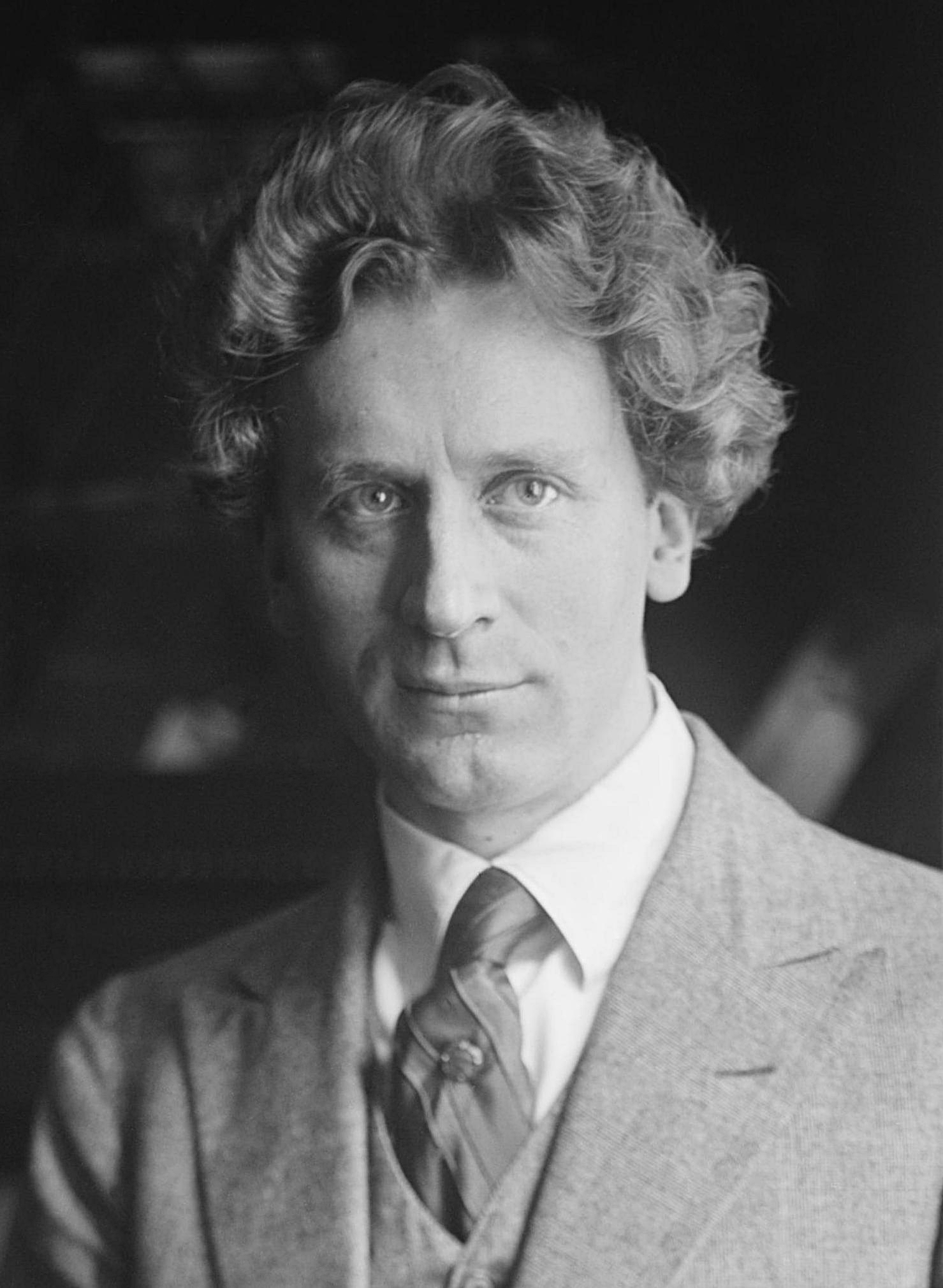 TITLE: [Percy] Grainger CALL NUMBER: LC-B2- 5032-1[P&P] REPRODUCTION NUMBER: LC-DIG-ggbain-29456 (digital file from original negative) No known restrictions on publication. MEDIUM: 1 negative : glass ; 5 x 7 in. or smaller. CREATED/PUBLISHED: [no date recorded on caption card] CREATOR: Bain News Service, publisher. NOTES: Neg. broken. Forms part of: George Grantham Bain Collection (Library of Congress). General information about the Bain Collection is available at Temp. note: Batch six loaded. FORMAT: Glass negatives. REPOSITORY: Library of Congress Prints and Photographs Division Washington, D.C. 20540 USA DIGITAL ID: (digital file from original neg.) ggbain 29456 CARD #: ggb2006004870